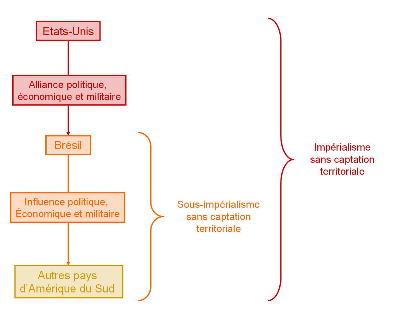 Imperialist model, with sub-imperialist constituent without territorial control, of control without territorial illegal securement by direct political, economic and military support.